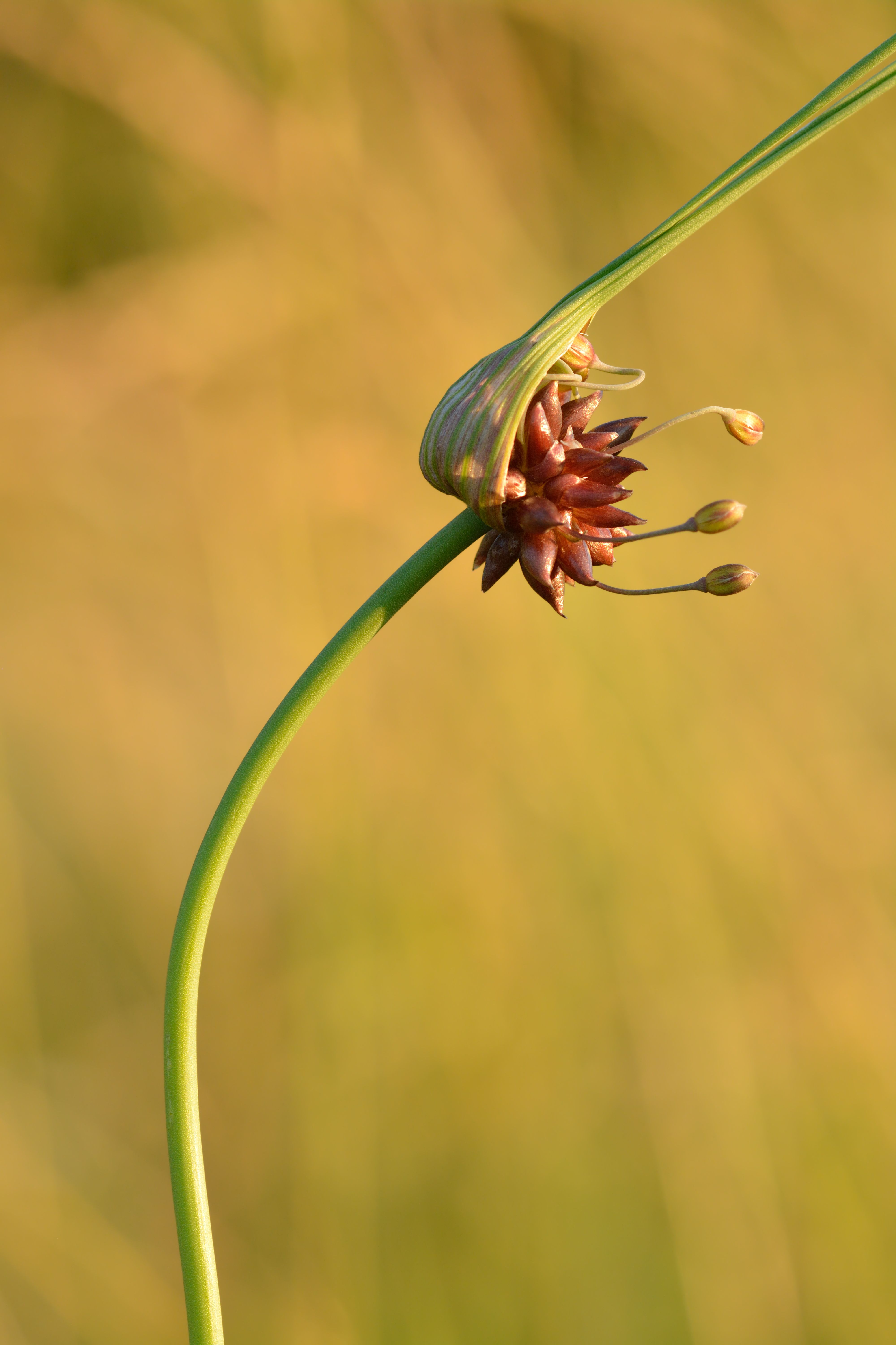 Field garlic (Allium oleraceum). Keila, Northwestern Estonia.